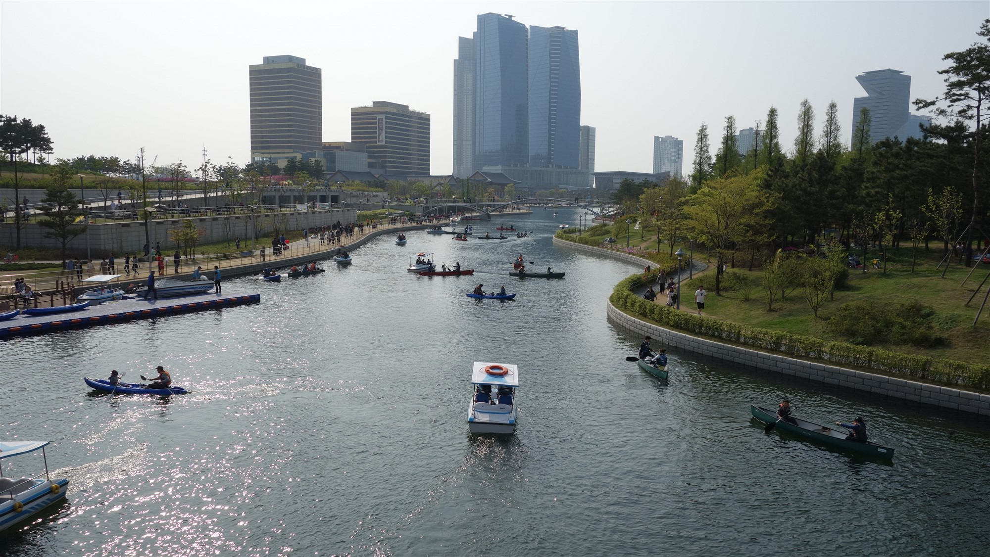 The lake at Central Park, Songdo IBD, Incheon, Korea